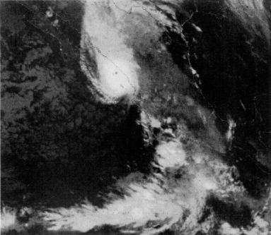 Hurricane Tico near Mexican landfall on October 19, 1983